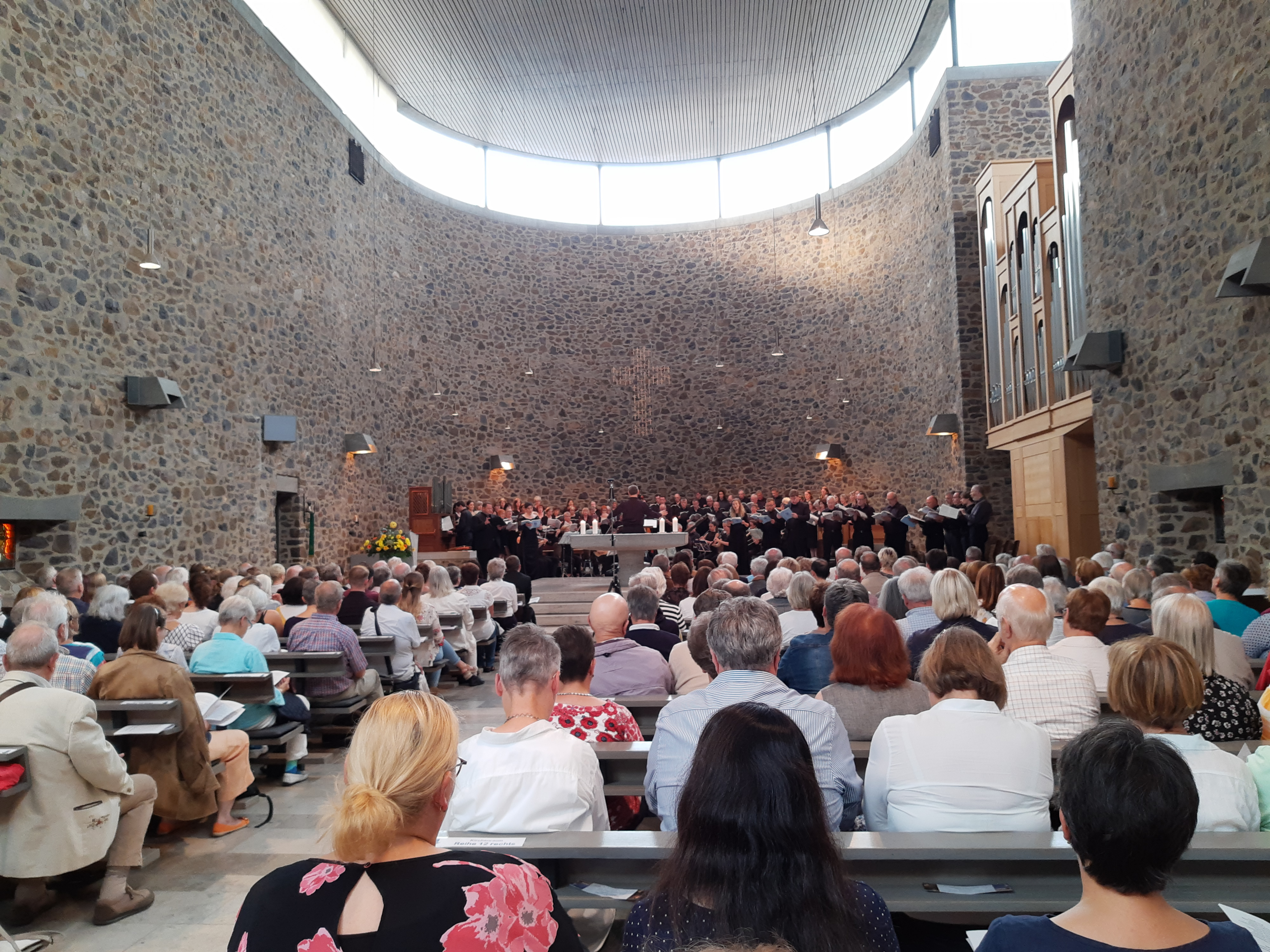 Monteverdi's Vespro della Beata Vergine performed in St. Martin, Idstein, in a choral concert by Chor St. Martin, Martinis, Schola Cantorum Gallensis (Andreas Großmann), Capella San Marco, conducted by Franz Fink, with soloists Elisabeth Scholl, Lieselotte Fink, Christian Rohrbach, Mirko Ludwig, Fabian Kelly, Johannes Hill, and organist Peter Reulein, applause after the concert